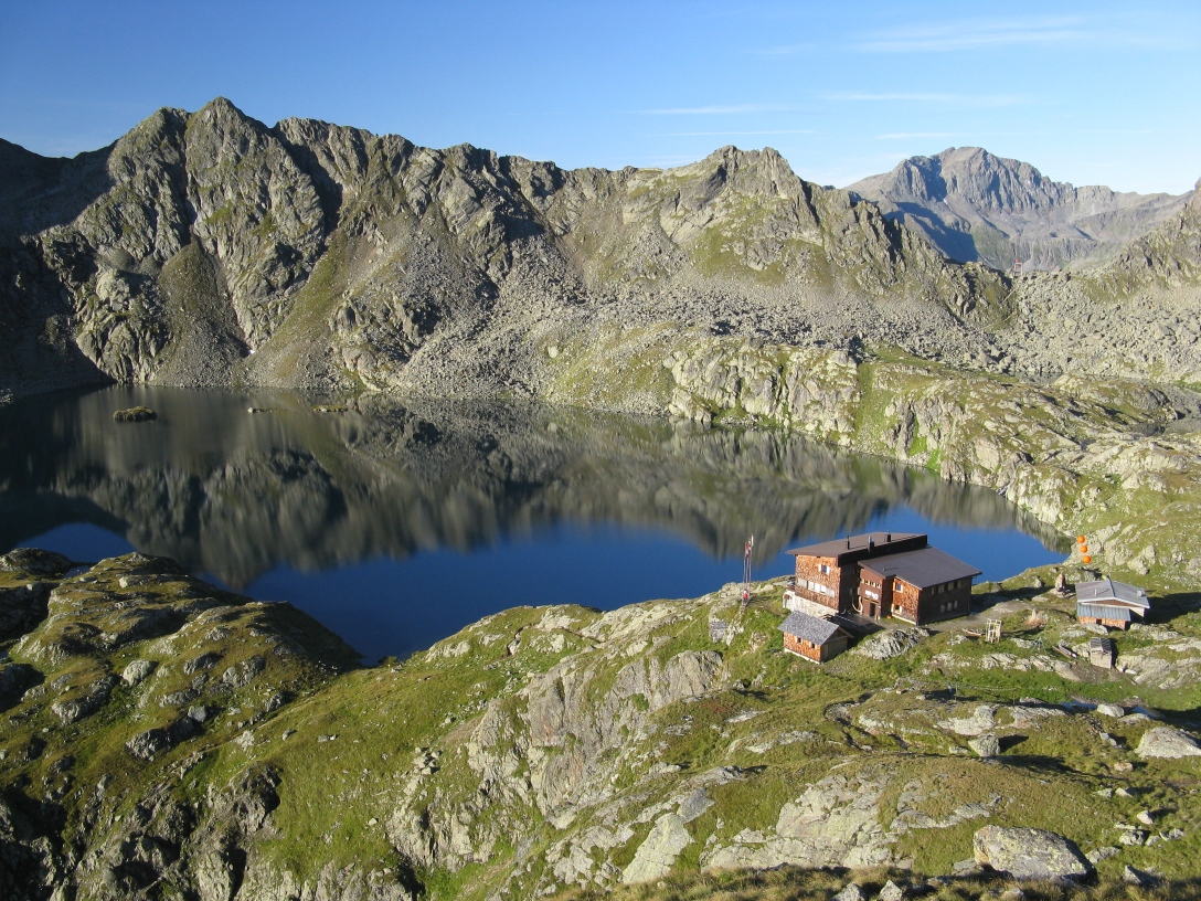 Wangenitzsee and -hut, Schober Group, Hohe Tauern. The mountain in the background is the Schleinitz.